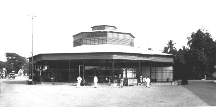 The market in Medan's Petisah quarter